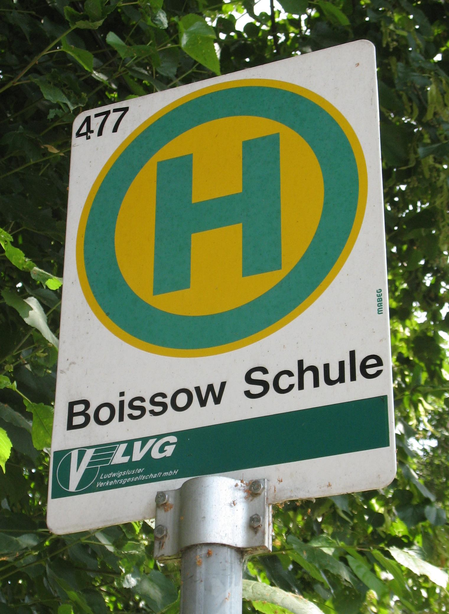 Bus stop sign in Zarrentin-Boissow in Mecklenburg-Western Pomerania, Germany